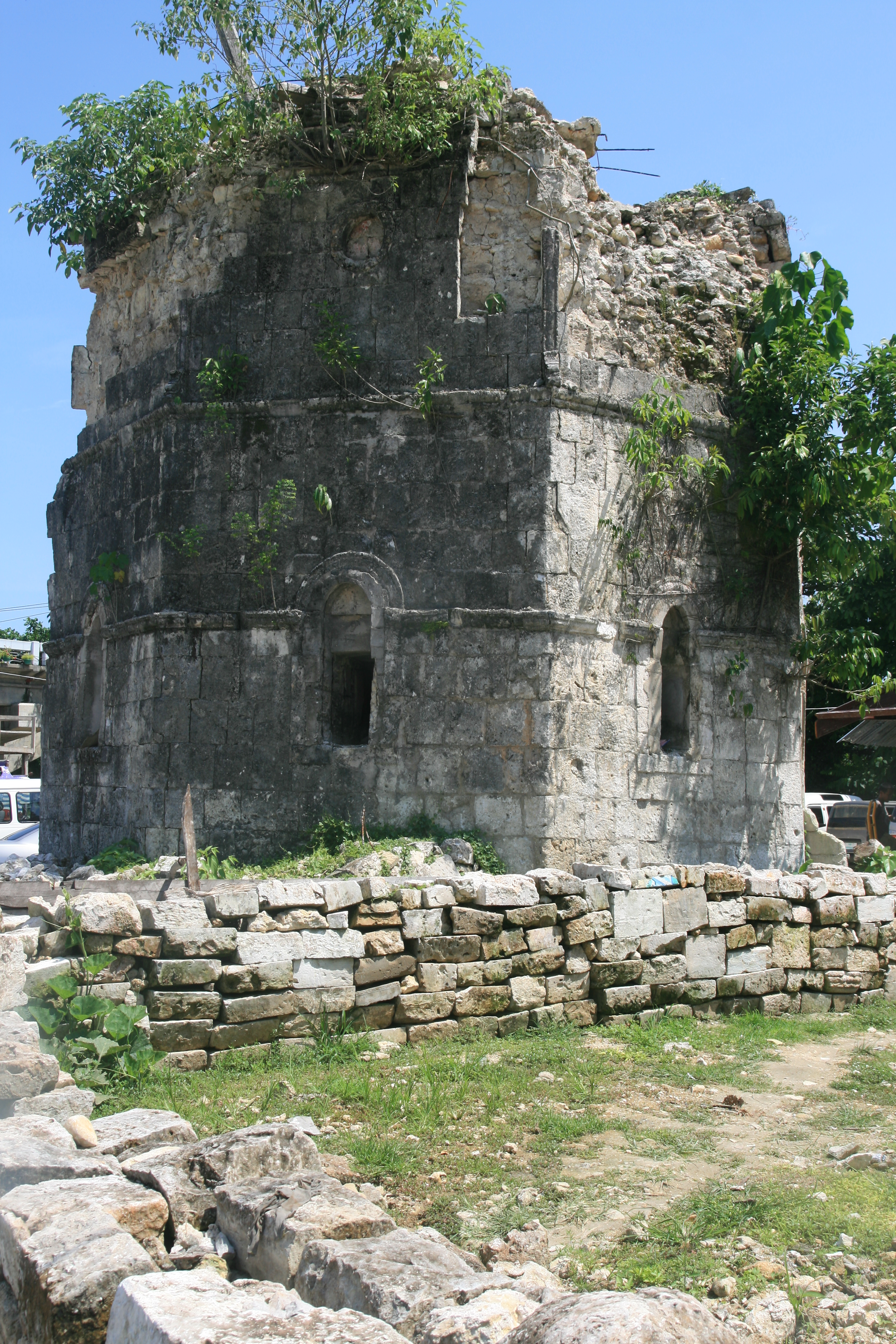 Remains of Loboc church belfry post-2013 earthquake